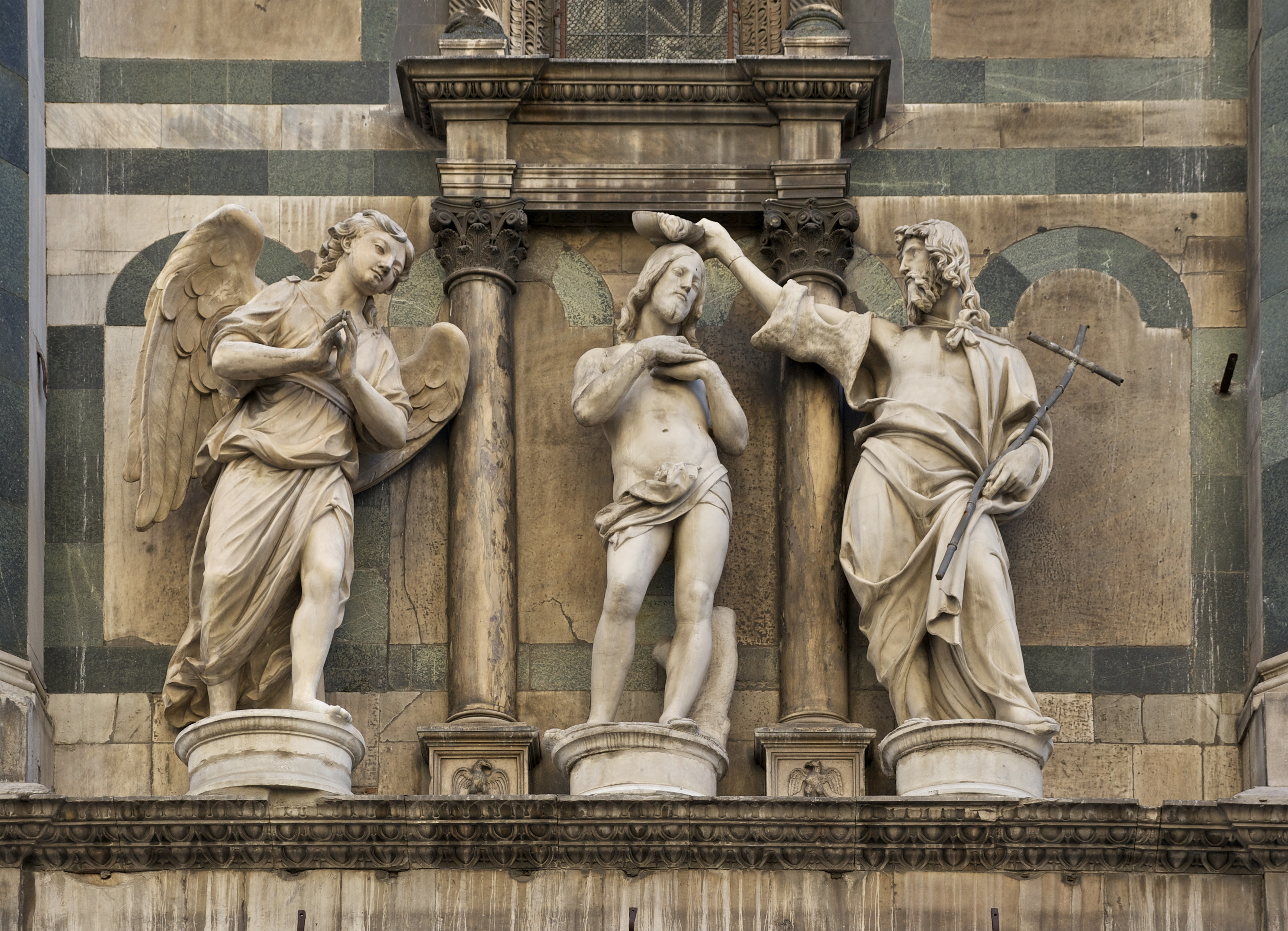 Baptism of Christ (copy), above the entrance of the Florence Baptistery. Originals are on display at the Museo del Duomo.The angel is by Innocenzo Spinazzi; the Christ is mostly by Vincenzo Danti, started by Sansovino; St. John is by Andrea Sansovino.